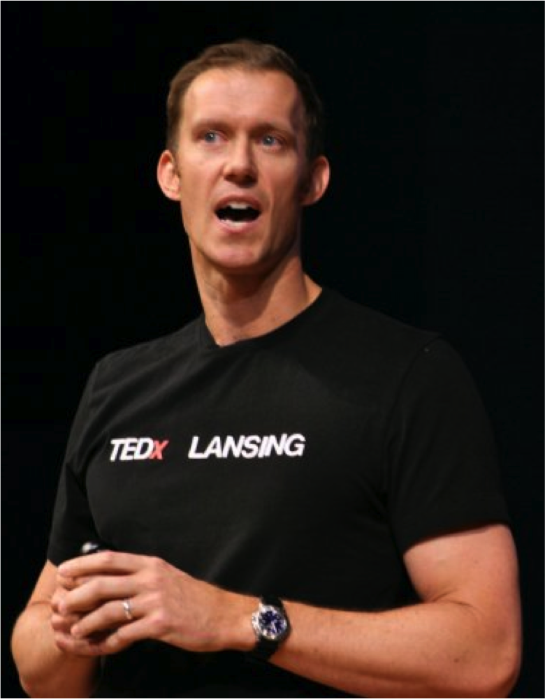 TED Speaker